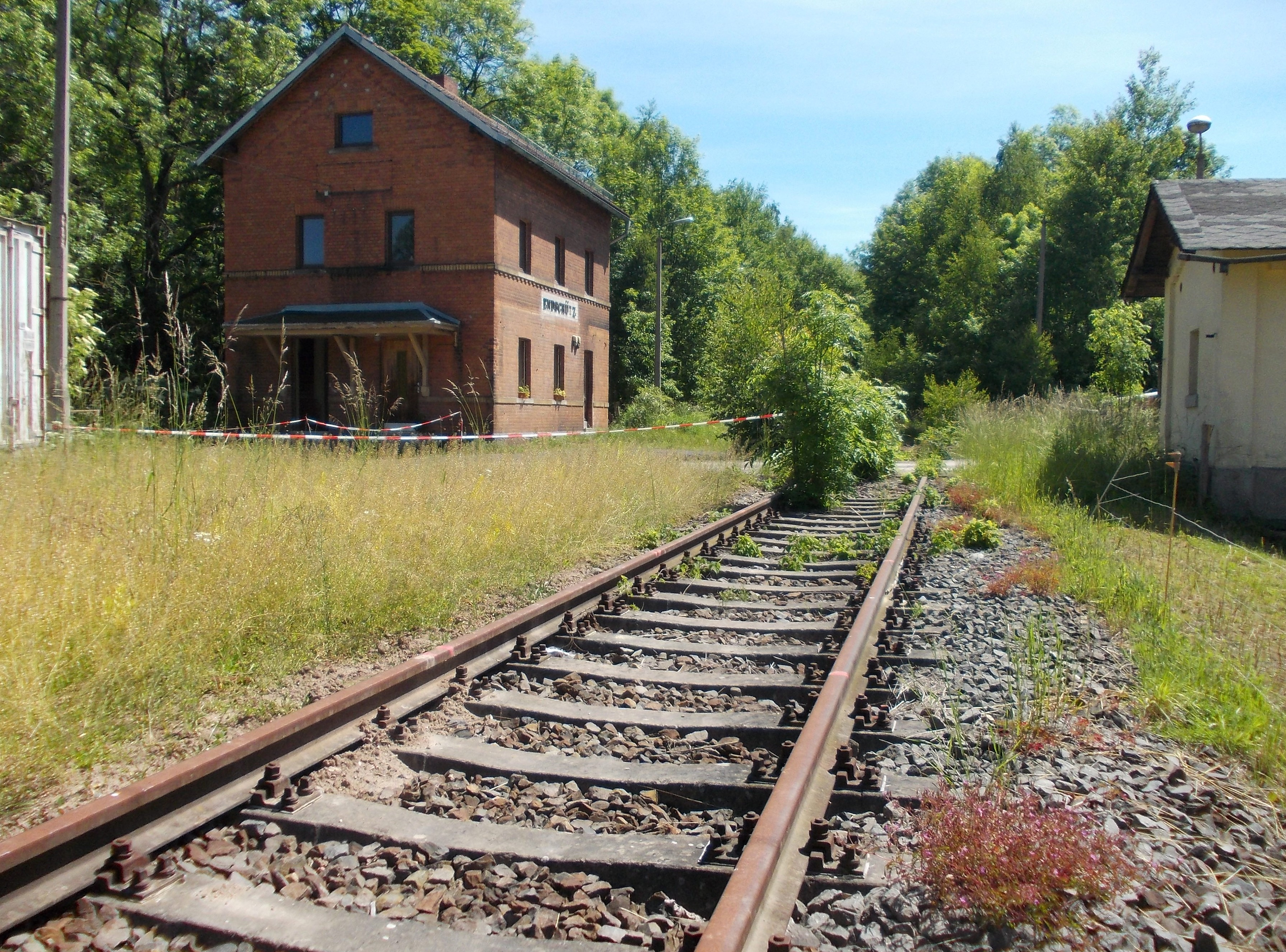 Former Wünschendorf-Werdau railway line and station building in Endschütz (Greiz district, Thuringia)